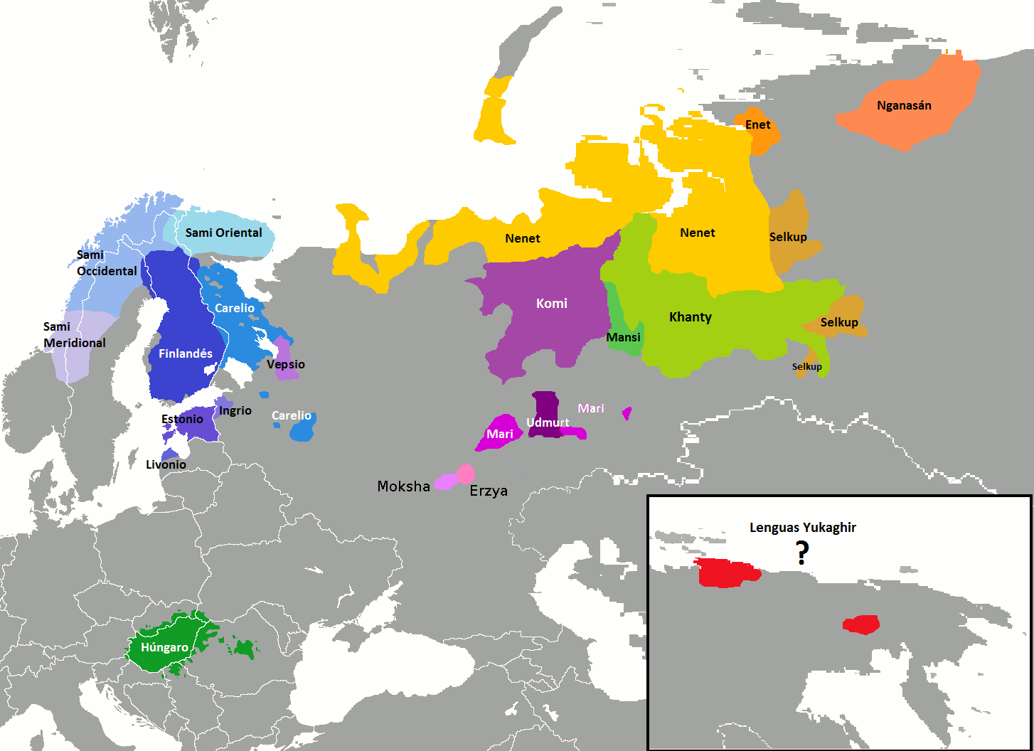 Geographic precision is abysmal. Better to make the map anew as SVG.